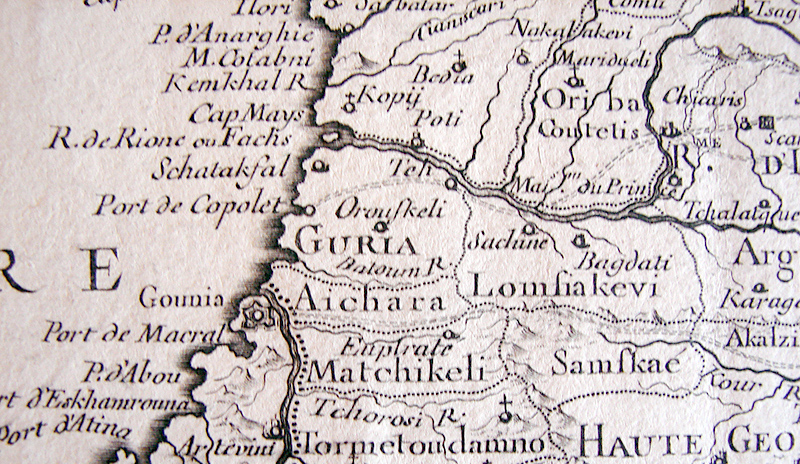 Detail from the map by Nicolas DeLisle, 1723. Kobuleti, Guria, Georgia